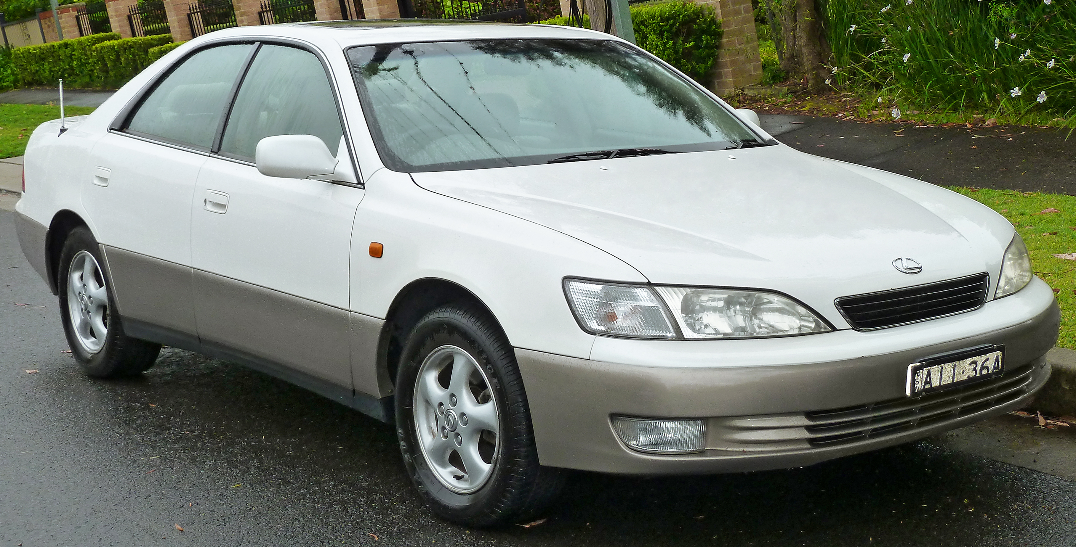 1999 Lexus ES 300 (MCV20R) LXS sedan. Photographed in Roseville, New South Wales, Australia.